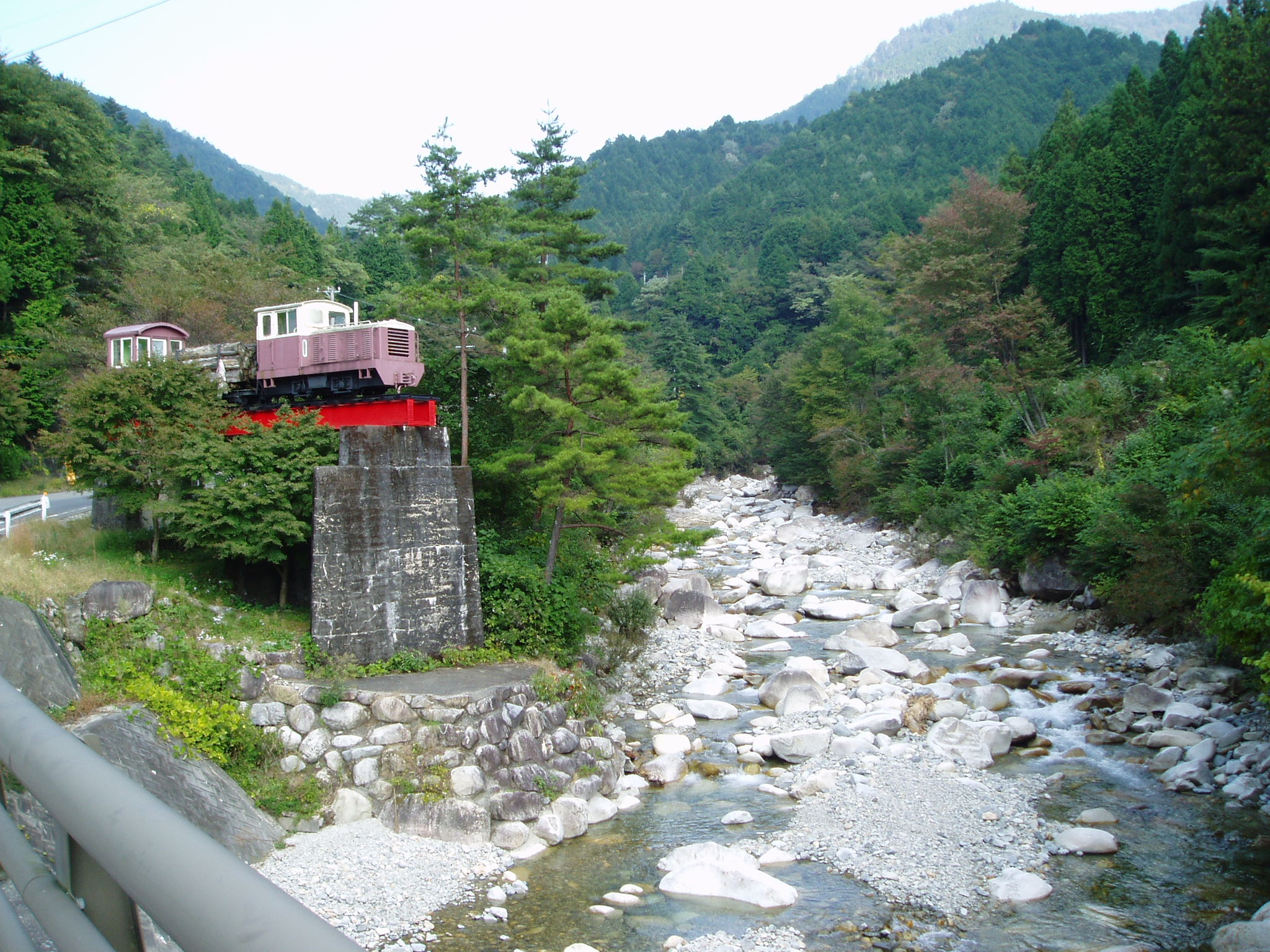 The Kawaue River in Nakatsugawa-City, Gifu-Prefecture. （Marinesnow5 (talk)'s file） Date:2011-10-10. Author:Marinesnow5 (talk). location:Kawaue, Nakatsugawa-City, Gifu-Prefecture, Japan.